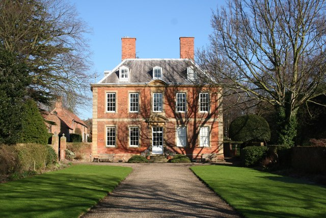 Oxton I Prebend Now named Cranfield House, c 1700 - 1720 house, probably built by Canon George Mompesson